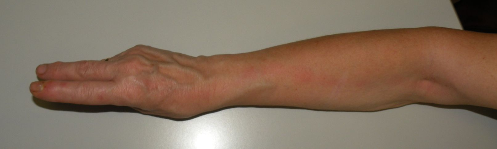 Hand and forearm lymphangitis due to a subungual abscess of the second finger